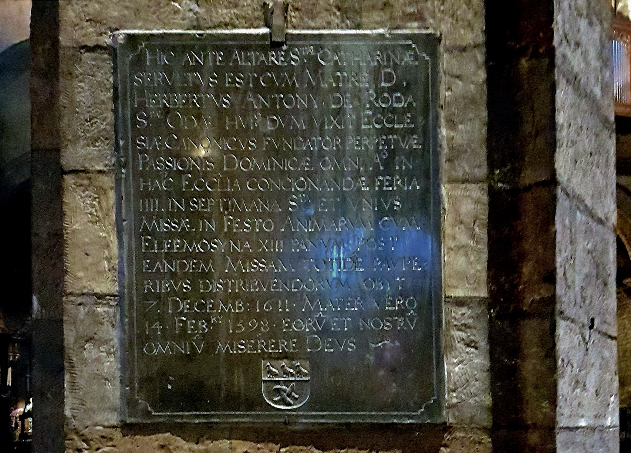 Epitaph from 1611 of Herbert Anthony of Rode, canon of this church, and his mother, on the east side of one of the piers between the nave and south aisle of the Basilica of Our Lady in Maastricht, the Netherlands. The Latin text reads: HIC ANTE ALTARE STAE CATHARINAE / SEPVLTVS EST CVM MATRE D. / HERBERTVS ANTONY. DE - RODA / STAE ODAE HUI' DVM VIXIT ECCLE / SIAE CANONICVS FVNDATOR PERPETVAE / PASSIONIS DOMINICAE OMNI AO IN / HAC ECC A CANCIONANDAE FERIA / IIII. IN SEPTIMANA STA ET VNIVS / MISSAE IN FESTO ANIMARVM CVM / ELEEMOSYNA XIII PANVM POST EANDEM MISSAM TOTDē PAVPE / RIBVS DISTRIBVENDORVM OBYT / 7 DECEMB: 1611. MATER VEN / 14. FEBRY 1598. EORV ET NOSTRV / OMNIV MISERERE DEVS